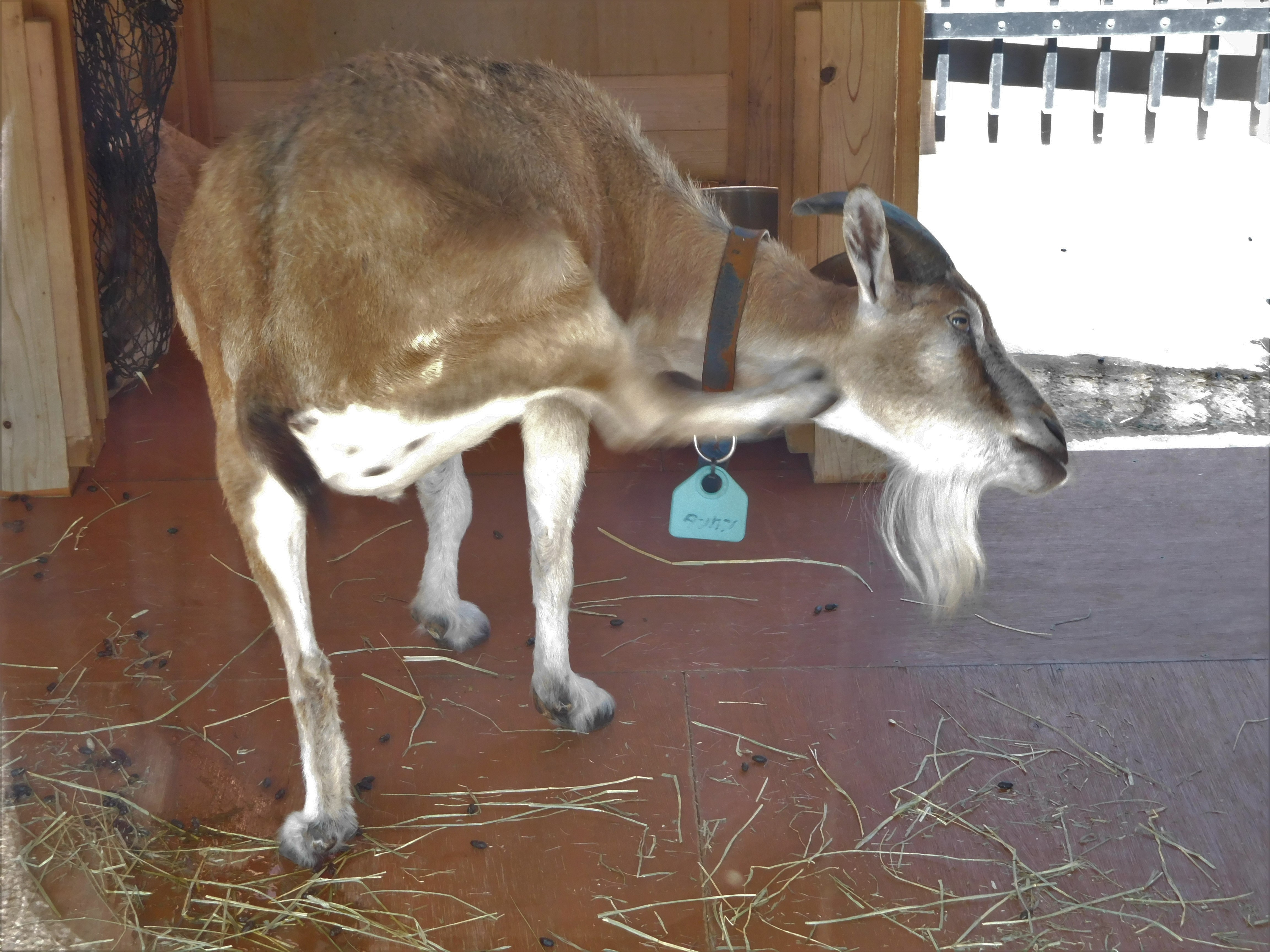 This is Tokara Goat in Ueno Zoo, Tokyo, Japan.